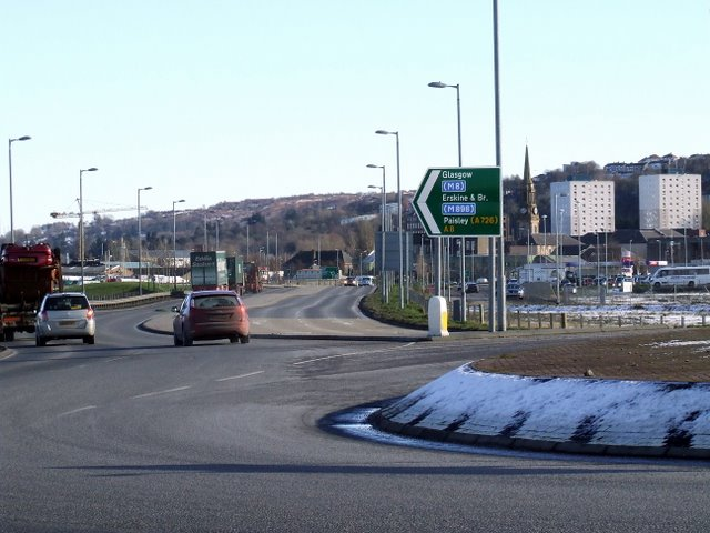 The A8 in Port Glasgow Running along the waterfront at the Tesco superstore. Viewed from the roundabout at Kingston Dock.